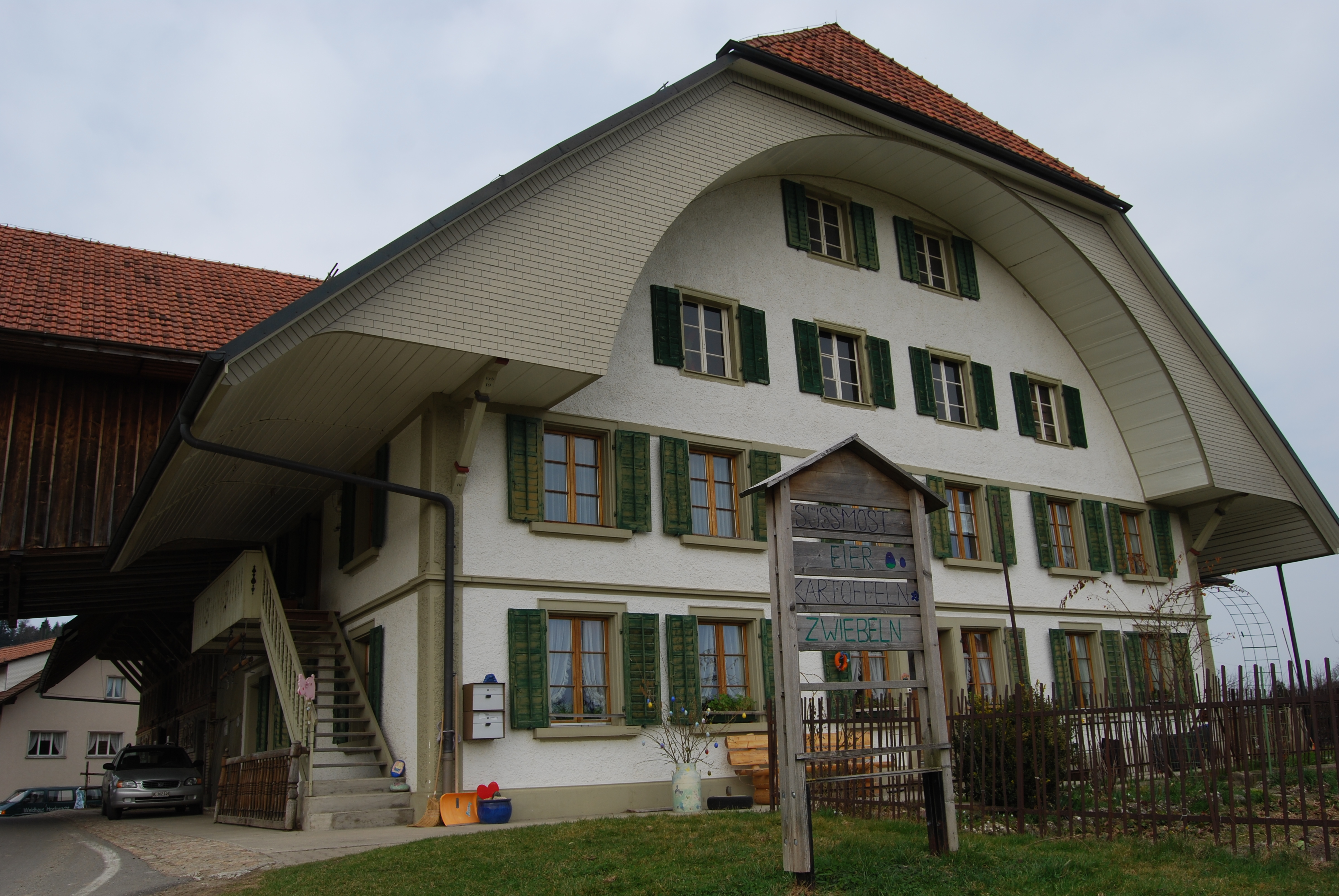 Reisiswil, canton of Bern, SwitzerlandEsperanto: Reisiswil, Kantono Berno, Svislando